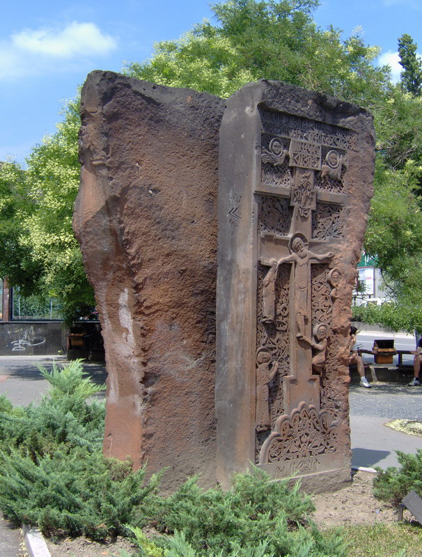 Hachkar in Novi Sad, Serbia at the site where once stood Armenian church, and is gift of town of Yerevan. It bears names of eight citisens of Novi Sad that died in the helicopter crash while being in Armenia as international rescuers after en:1988 Spitak earthquake. Check on Serbian wikipedia: [1]